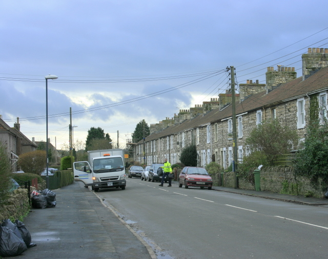 Refuse collection at Haydon A one time coal mining and quarrying hamlet, its main source of income now seems to be an industrial estate. A colliery is marked to the north on an old O.S. map and disused workings to the west. This is Kilmersdon Road out of Radstock.